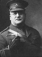 Edgerton Winnett Day in his later years, as a Major.